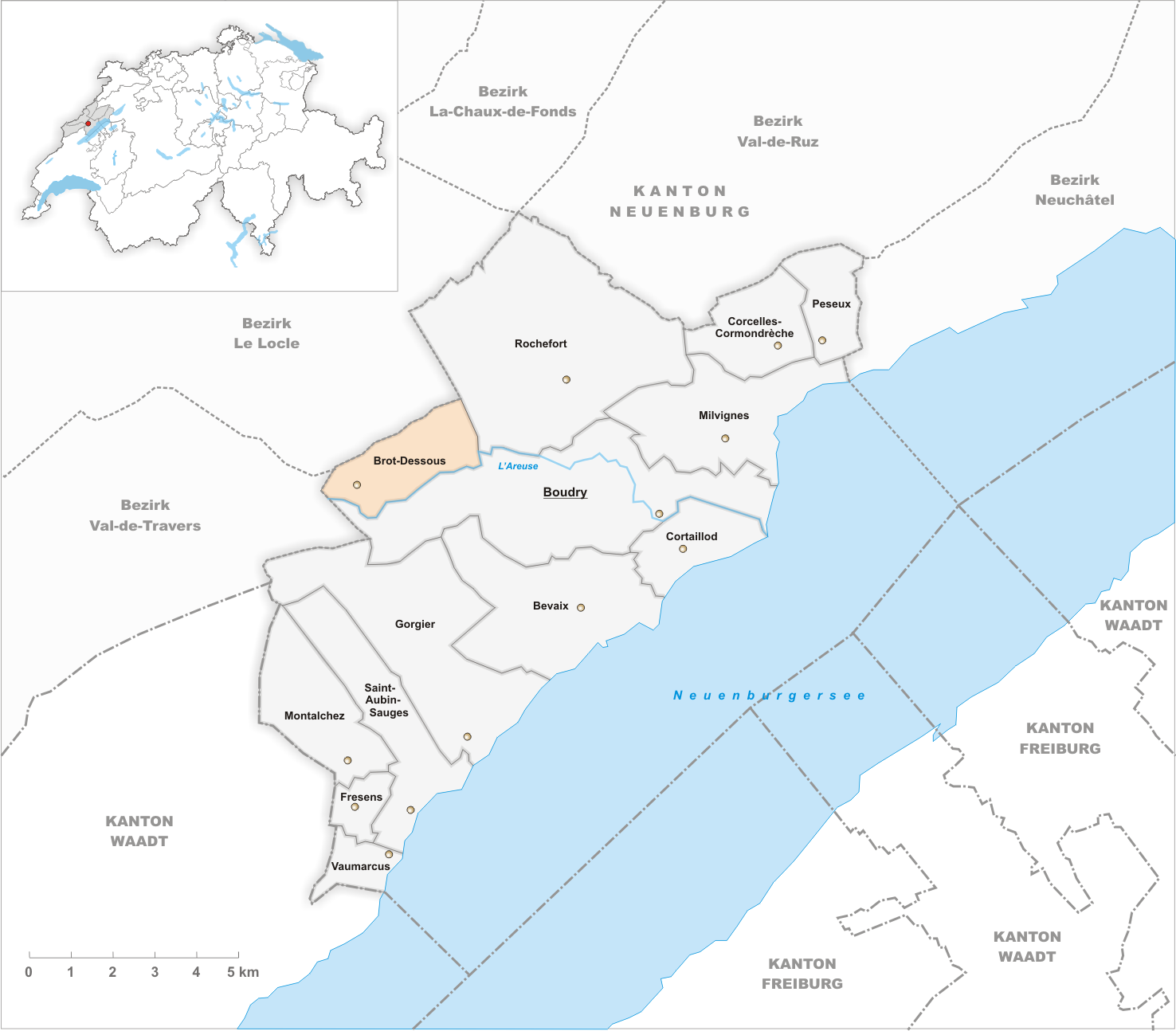 Municipality Brot-Dessous